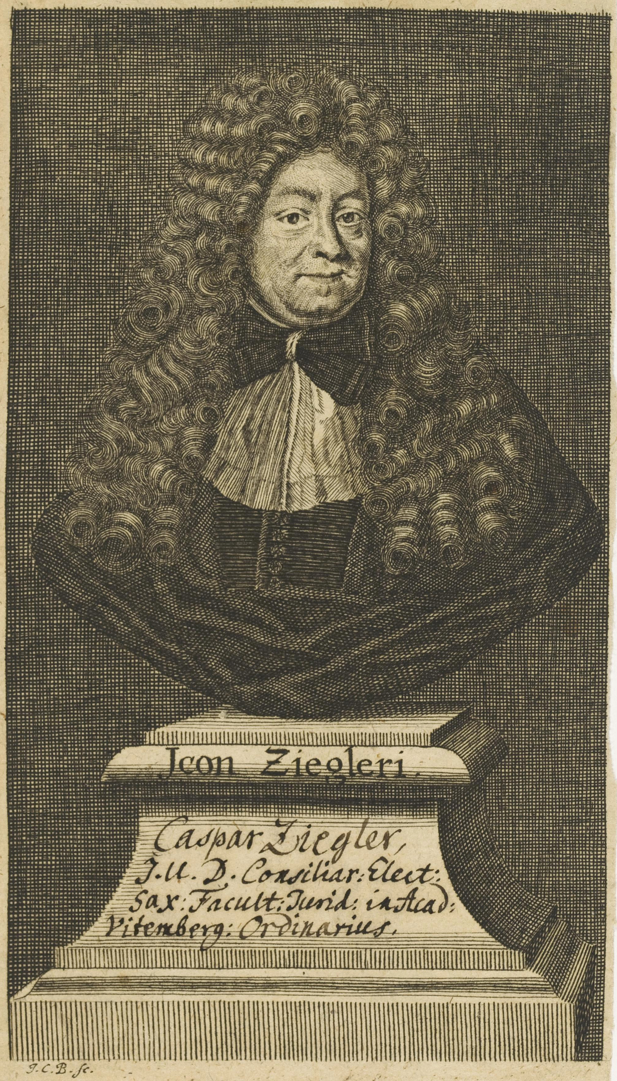 Depicted person: Caspar Ziegler